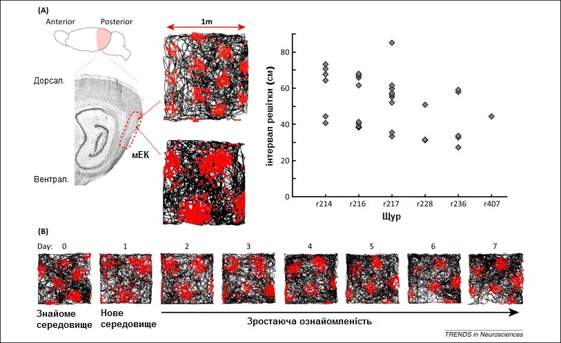 Properties of grid cell firing